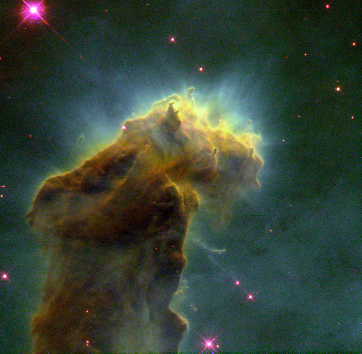 (April 1, 1995) This eerie, dark structure, resembling an imaginary sea serpent's head, is a column of cool molecular hydrogen gas (two atoms of hydrogen in each molecule) and dust that is an incubator for new stars. The stars are embedded inside finger-like protrusions extending from the top of the nebula. Each "fingertip" is somewhat larger than our own solar system. The pillar is slowly eroding away by the ultraviolet light from nearby hot stars, a process called "photoevaporation." As it does, small globules of especially dense gas buried within the cloud is uncovered. These globules have been dubbed "EGGs" -- an acronym for "Evaporating Gaseous Globules." The shadows of the EGGs protect gas behind them, resulting in the finger-like structures at the top of the cloud. Forming inside at least some of the EGGs are embryonic stars -- stars that abruptly stop growing when the EGGs are uncovered and they are separated from the larger reservoir of gas from which they were drawing mass. Eventually the stars emerge, as the EGGs themselves succumb to photoevaporation. The stellar EGGS are found, appropriately enough, in the "Eagle Nebula" (also called M16 -- the 16th object in Charles Messier's 18th century catalog of "fuzzy" permanent objects in the sky), a nearby star-forming region 7,000 light-years away in the constellation Serpens. The picture was taken on April 1, 1995 with the Hubble Space Telescope Wide Field and Planetary Camera 2. The color image is constructed from three separate images taken in the light of emission from different types of atoms. Red shows emission from singly-ionized sulfur atoms. Green shows emission from hydrogen. Blue shows light emitted by doubly-ionized oxygen atoms. Image # : PR95-44D